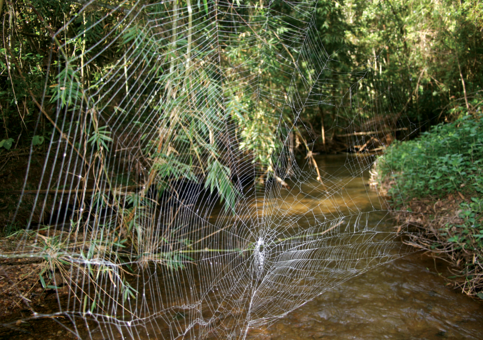 A photograph of the web of Darwin's bark spider (Caerostris darwini).